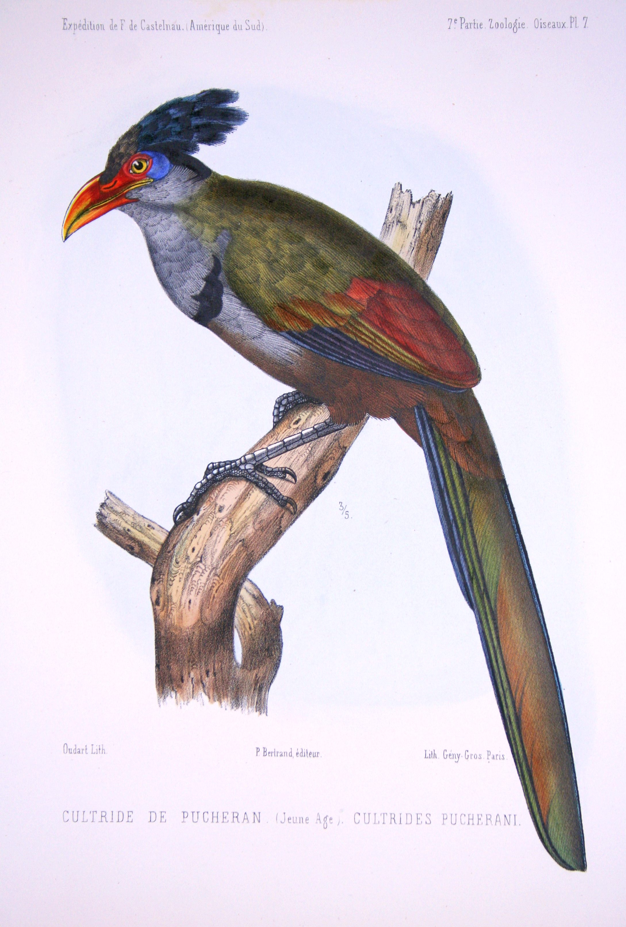 Cultrides pucherani = Neomorphus pucheranii